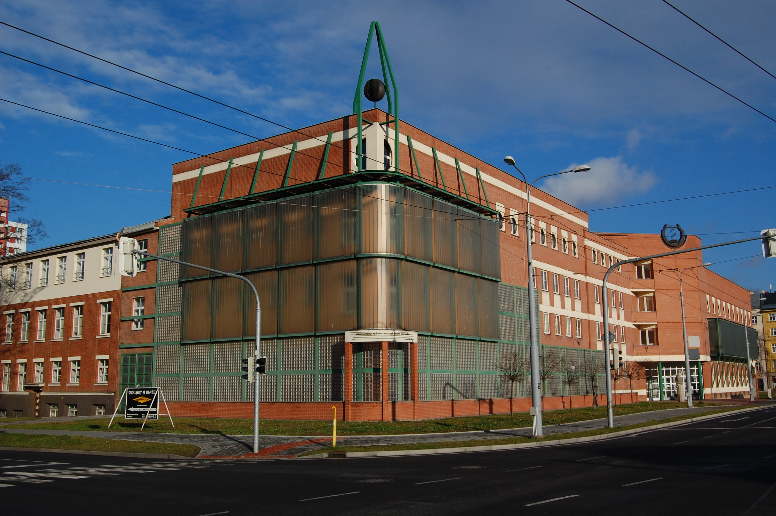 Leoš Janáček's school of music in Ostrava, Czech Republic.